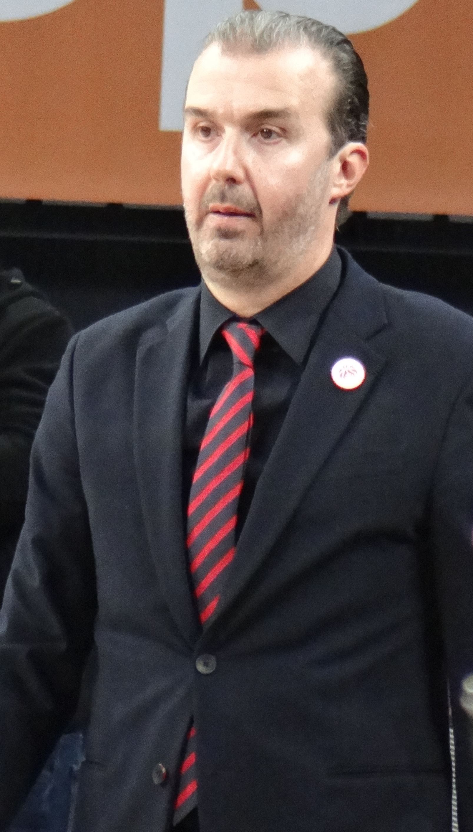 Simone Pianigiani AX Armani Exchange Olimpia Milan 20171130